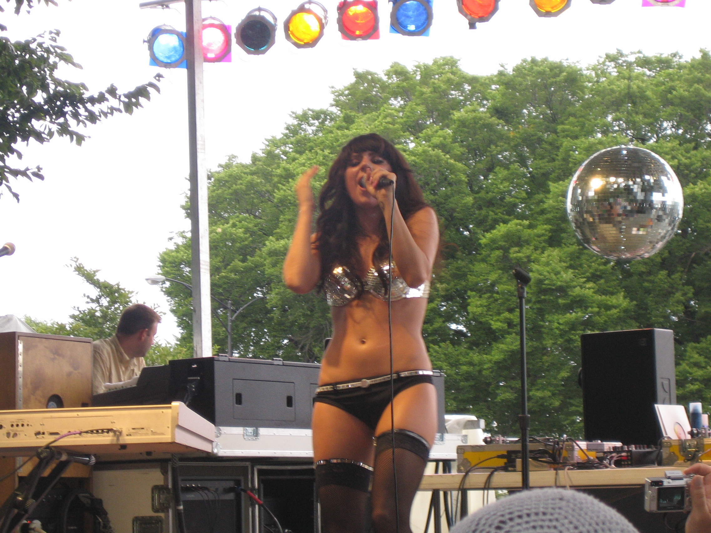 Lady Gaga at Lollapalooza, 2007.